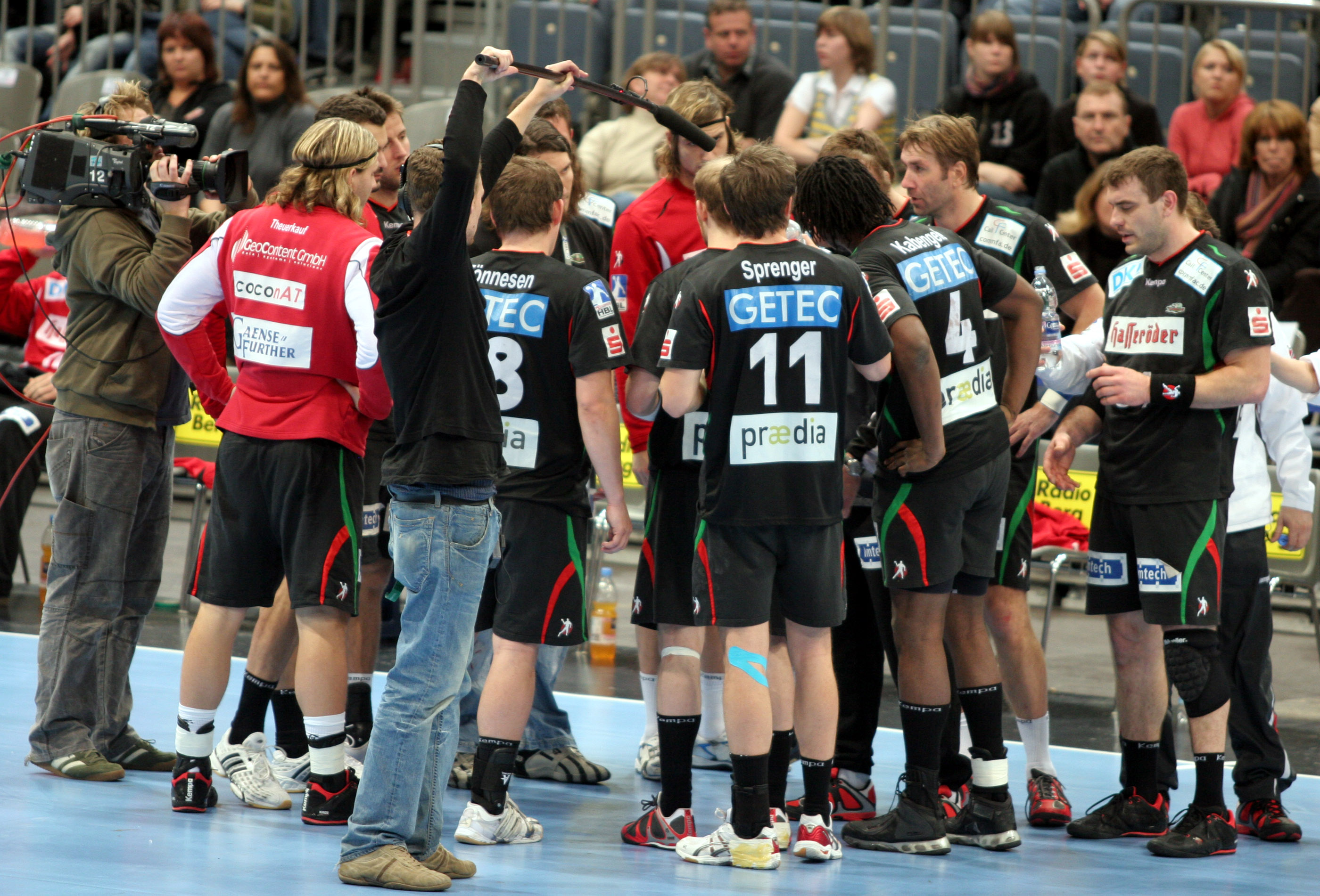 The team from SC Magdeburg (Germany) during a team time-out. November 19th, 2008 in Lanxess Arena of Cologne